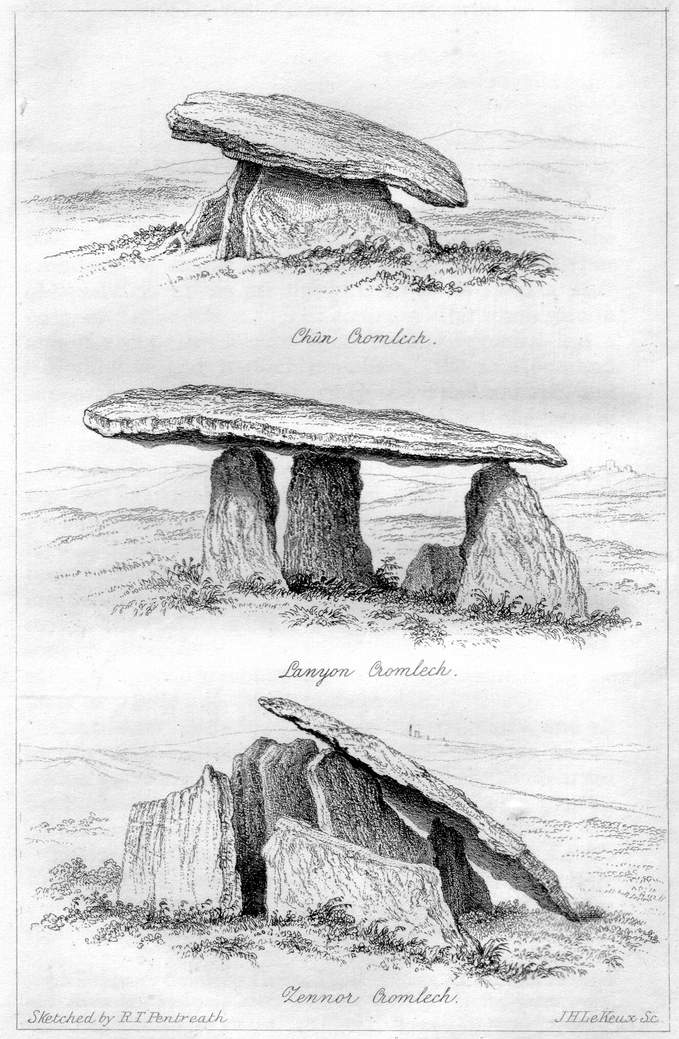 Engraving - Cornish Cromlechs - Cornwall - UK